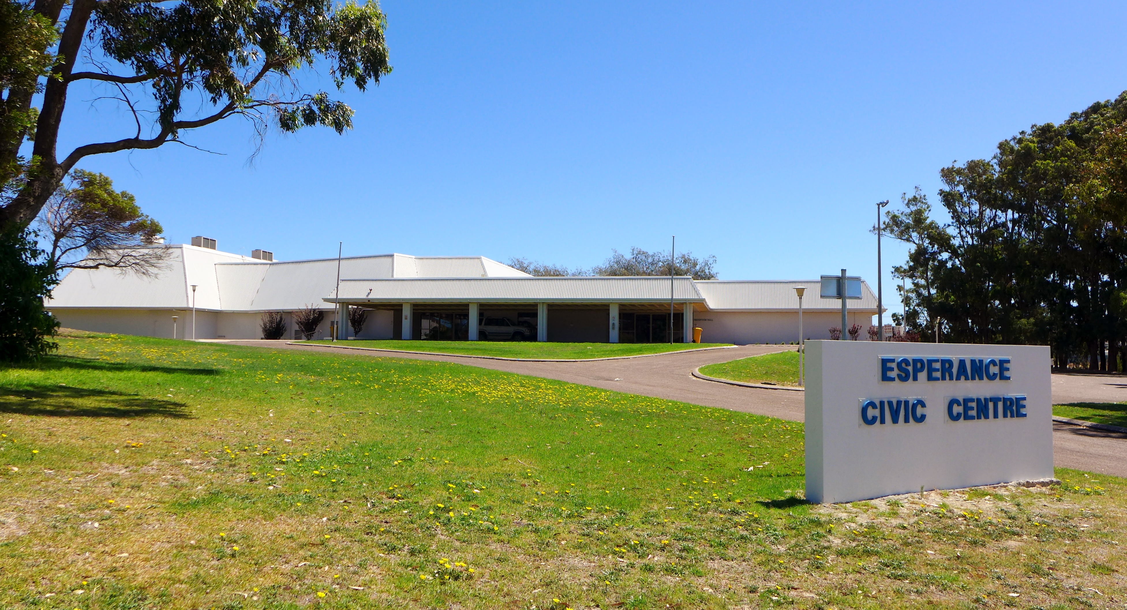 View of the Esperance Civic Centre, Esperance, Western Australia